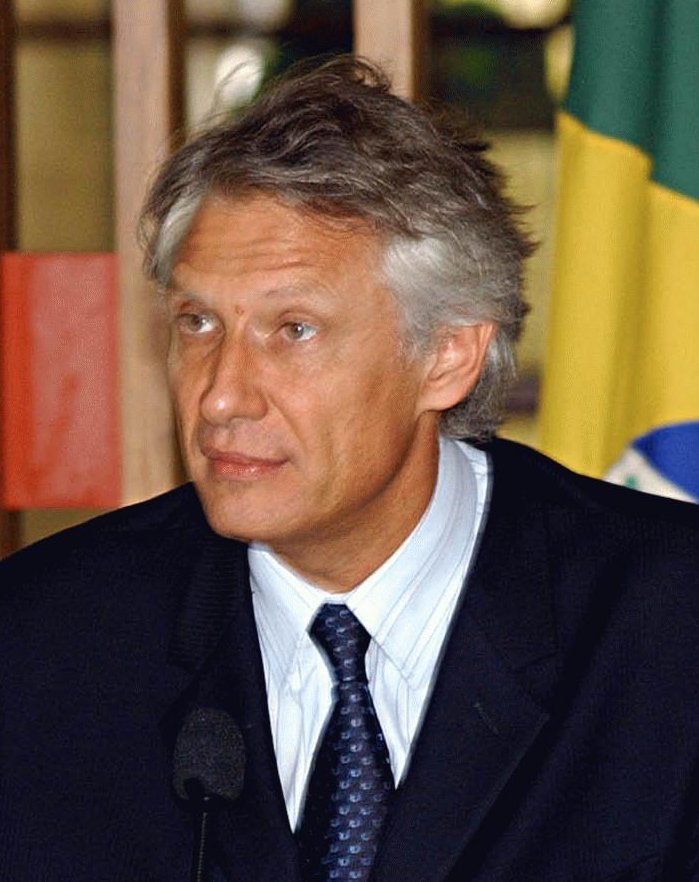 Dominique de Villepin (then French foreign minister).